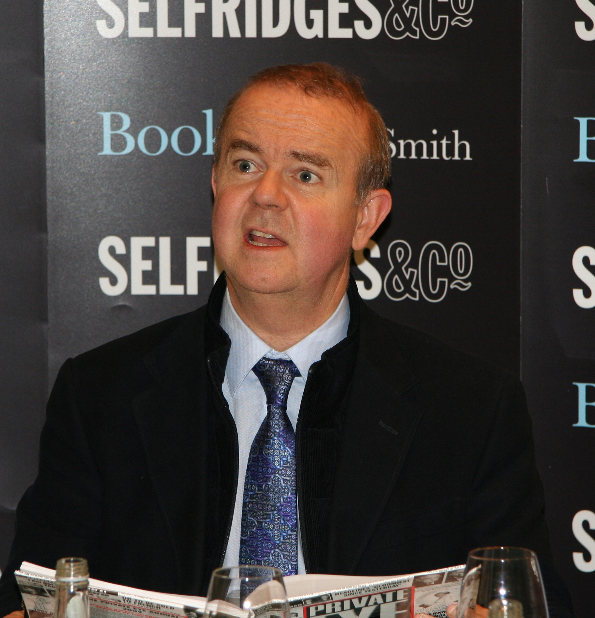 Ian Hislop Signing the Private Eye annual